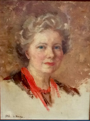 This is a self portrait in oil of Stella Marks, painted about 1940. The portrait was photographed on 12 January 2017 by her grandson Anthony Pettifer.